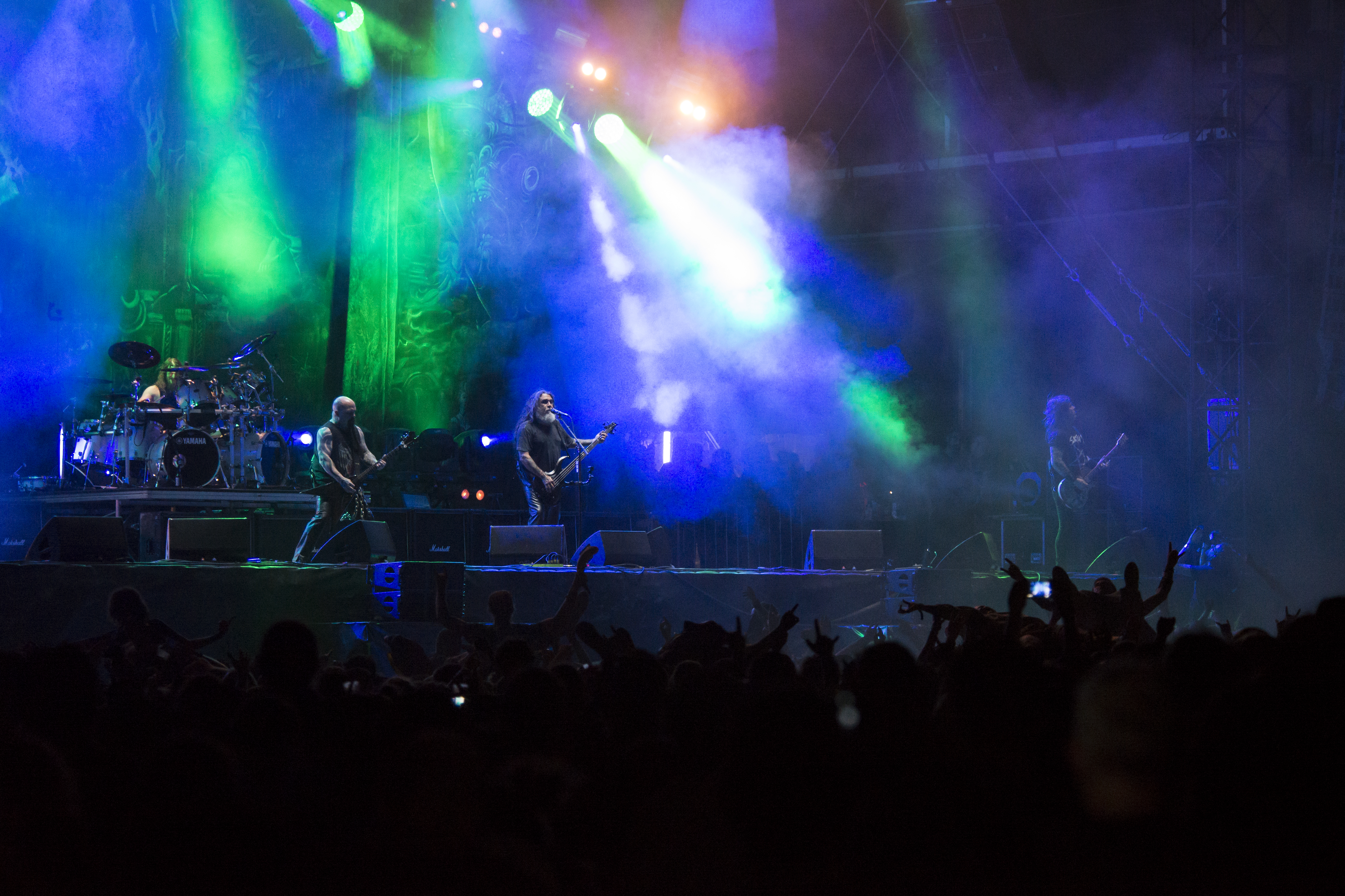 Slayer show, 2017 Hellfest, France.